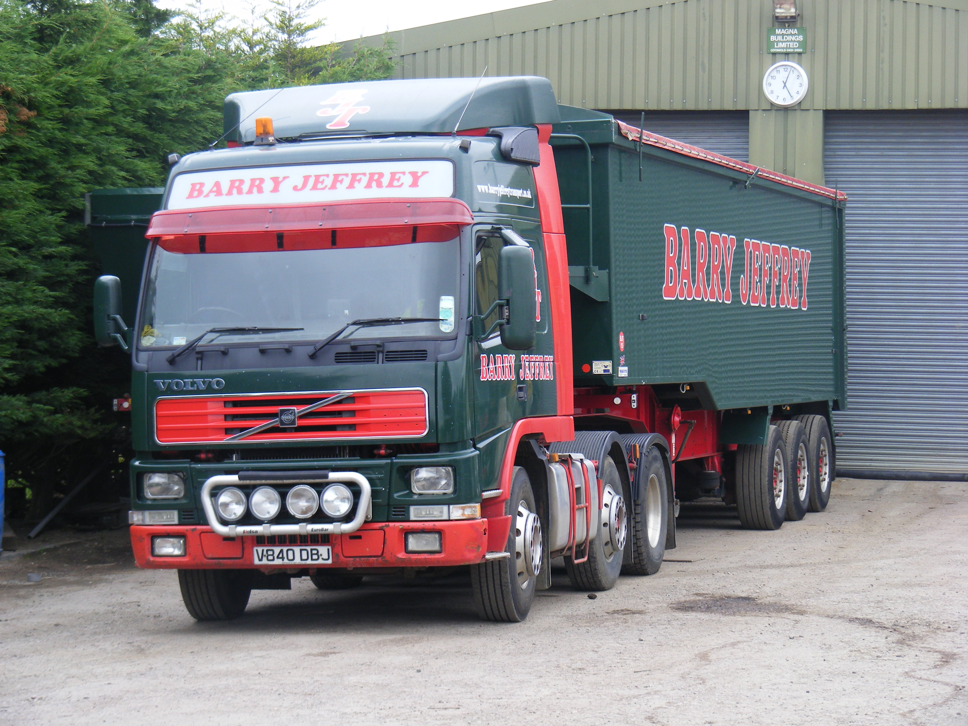 Comes with an attached and highly recommended Bed and Breakfast ...an ideal base for truck enthusiasts visiting the Cotswolds. As seen in this lorry spotting site A smart fleet indeed, set up by the B&B owners who have now passed the haulage concern down through the family in order to concentrate on the guest house. This Volvo , with one of the old East Suffolk CC registration marks, so often seen on Felixstowe and Ipswich container hauliers' vehicles, seems to have a first generation FM cab. Spotless, like the rest of the fleet.